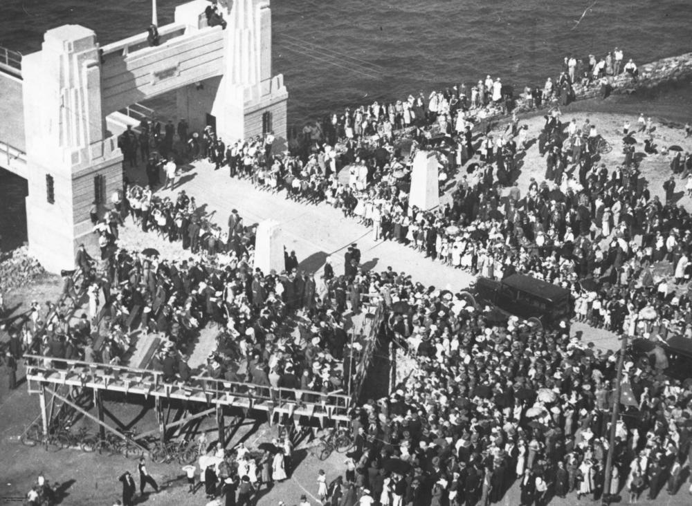 Crowds at the south portal of the Hornibrook Highway bridge on opening day, Redcliffe, 1935 Aerial view of the crowds near the south portal of the Hornibrook Highway bridge, or viaduct, on the official opening day. Cars are about to cross the bridge for the first time.